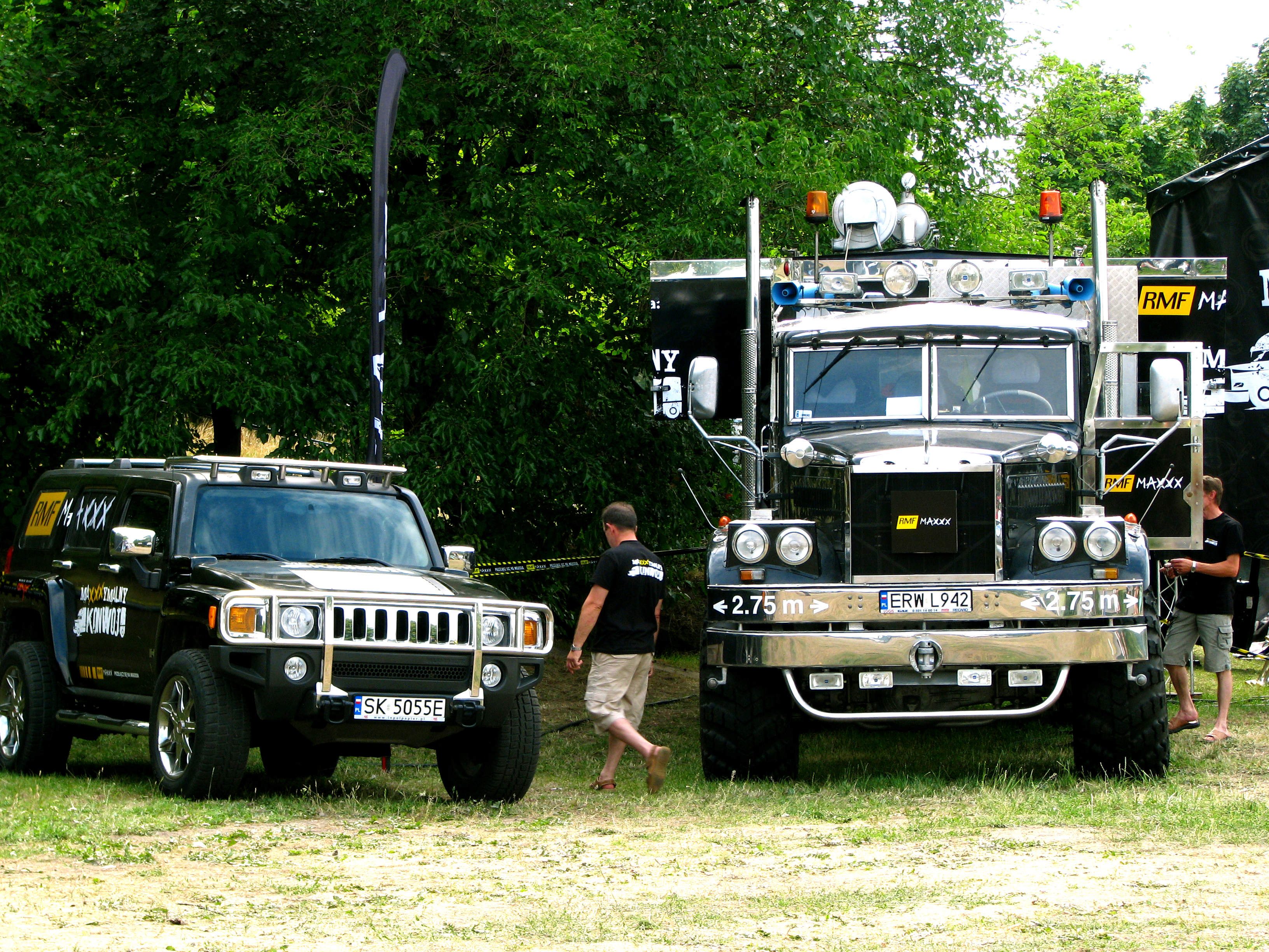 Radio RMF Maxxx. Poland.